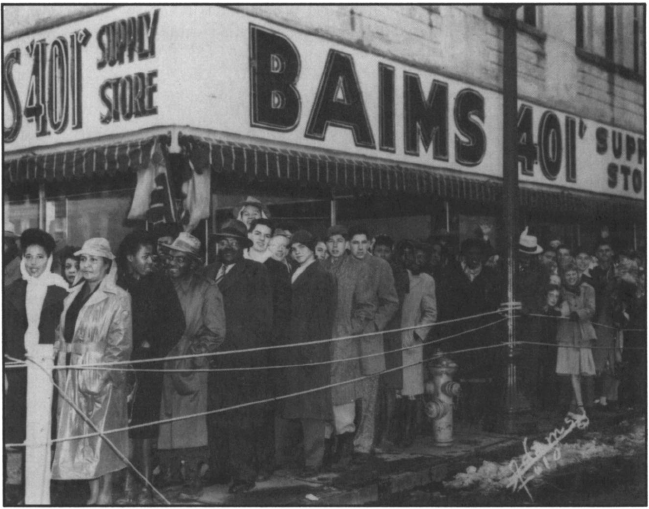 Desegregated line for the 1947–1949 Freedom Train in Pine Bluff, Arkansas.